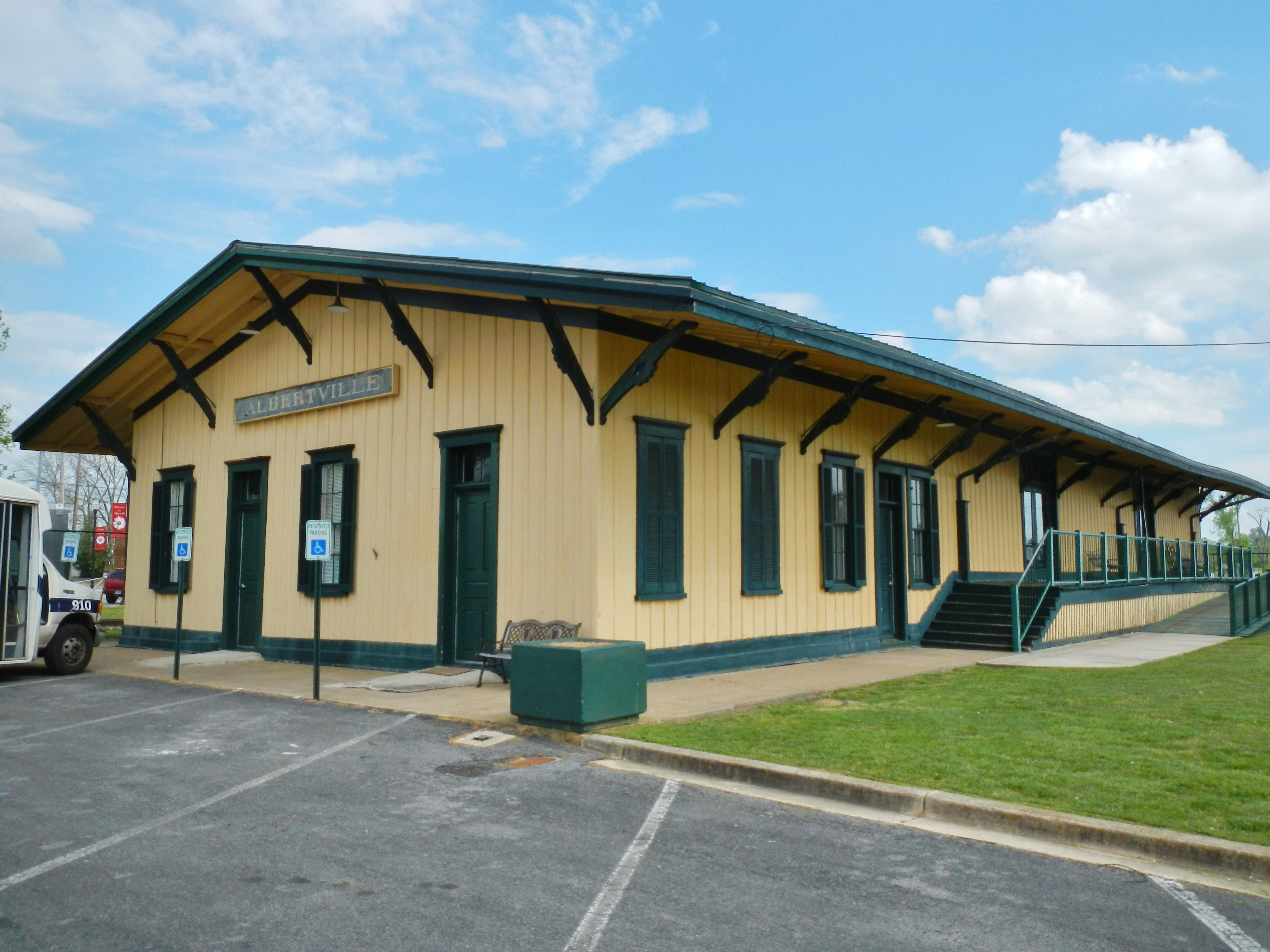 This is a photo of the L&N Railroad Depot in Albertville, Alabama.